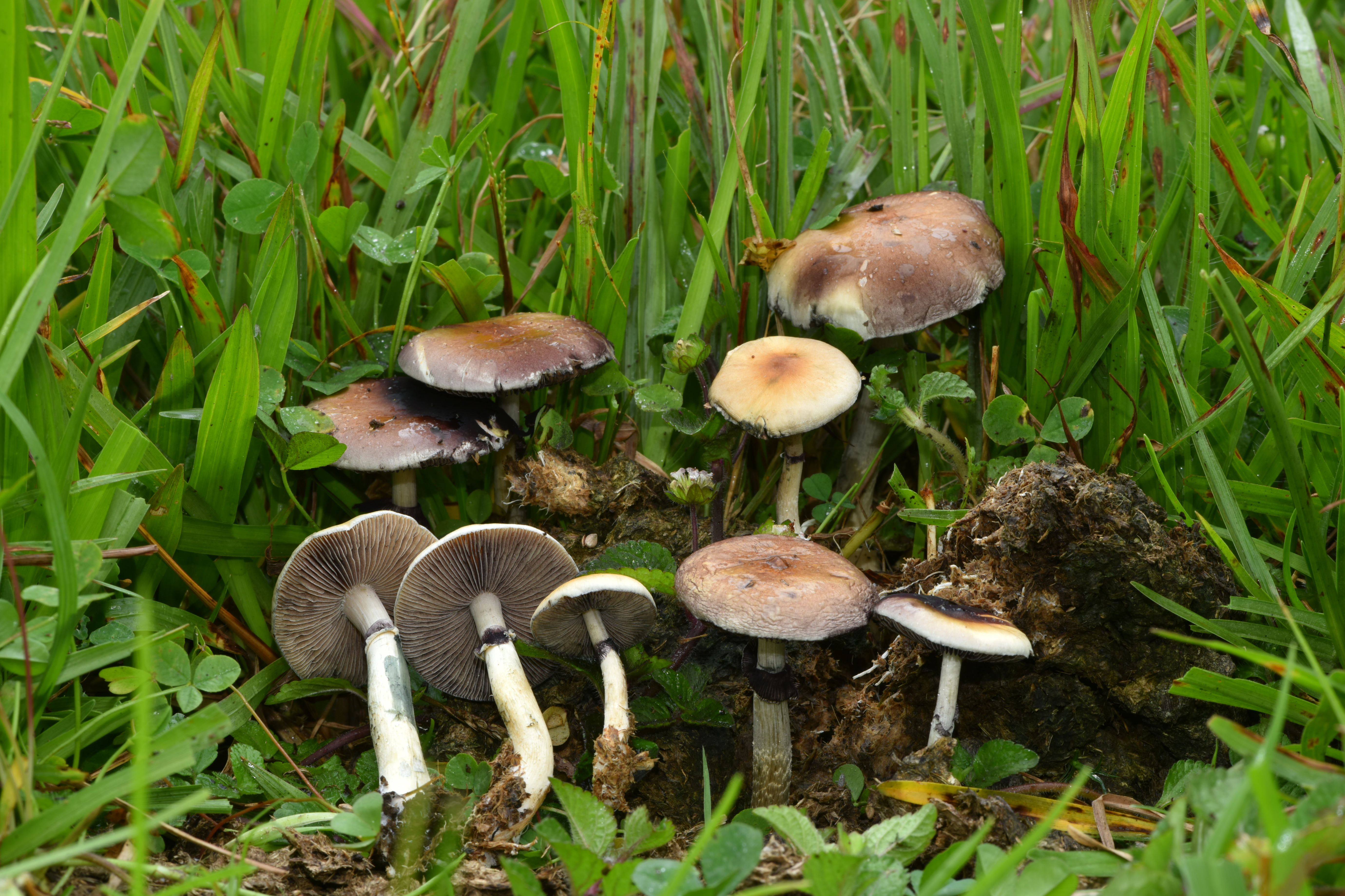 Psilocybe cubensis photographed in Xalapa, Veracruz, Mexico. For more information